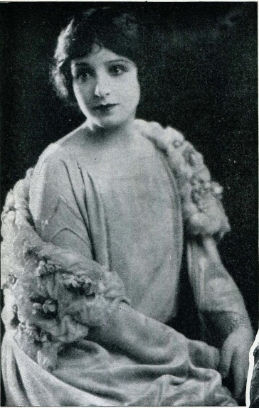 Florence Vidor in "Alice Adams", from a 1923 publication. Photo by Albert Witzel.